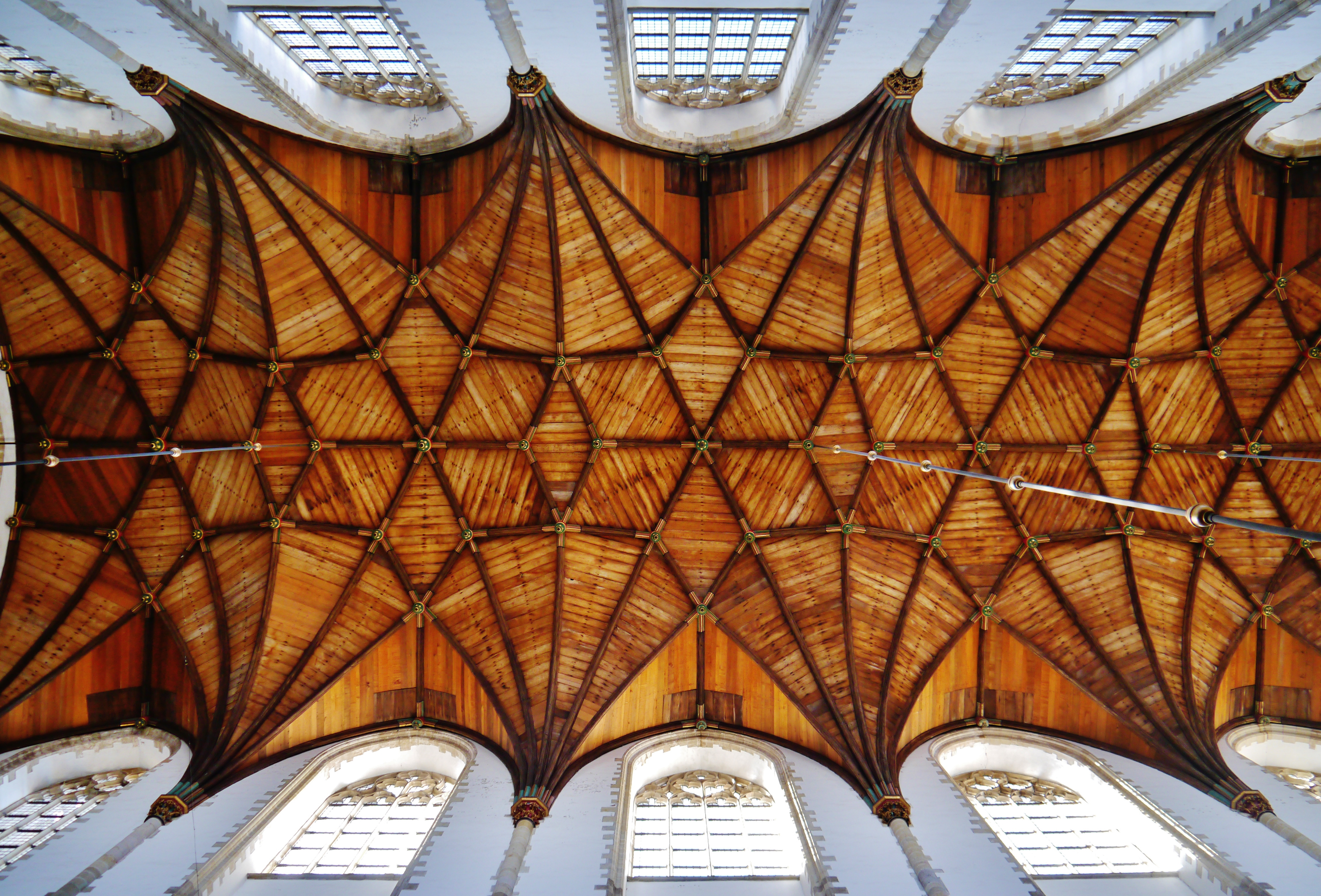 Vault of the Grand Church St. Bavo, Haarlem, Province of North Holland, Netherlands